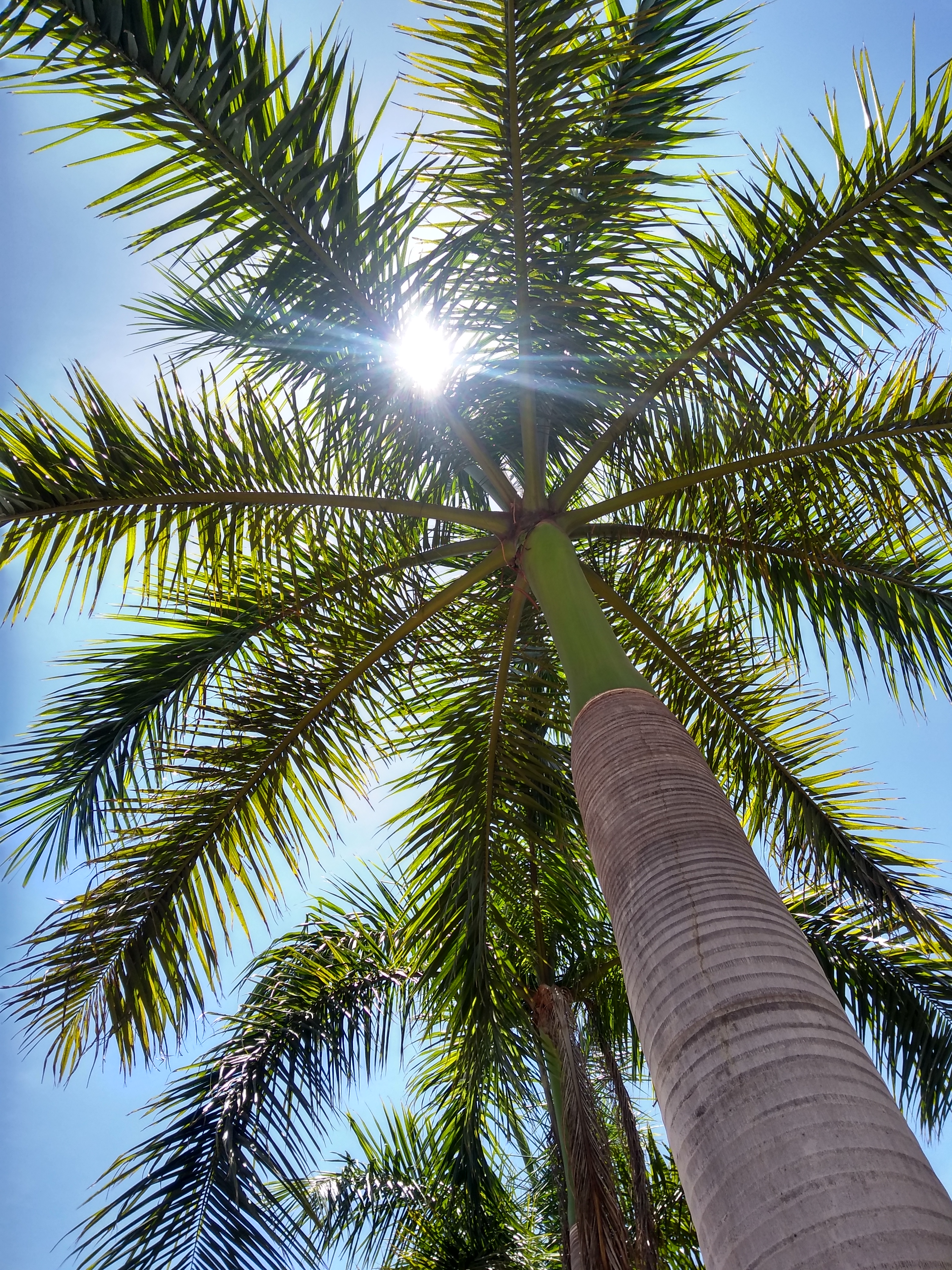 Worm eye view of Royal palm